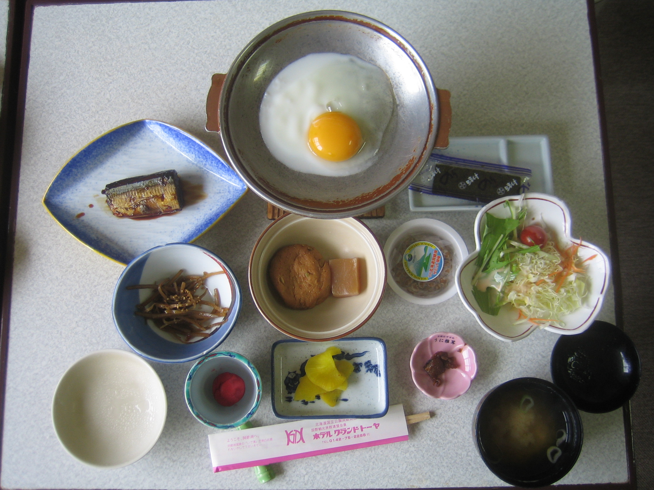 This is actually breakfast... :-)